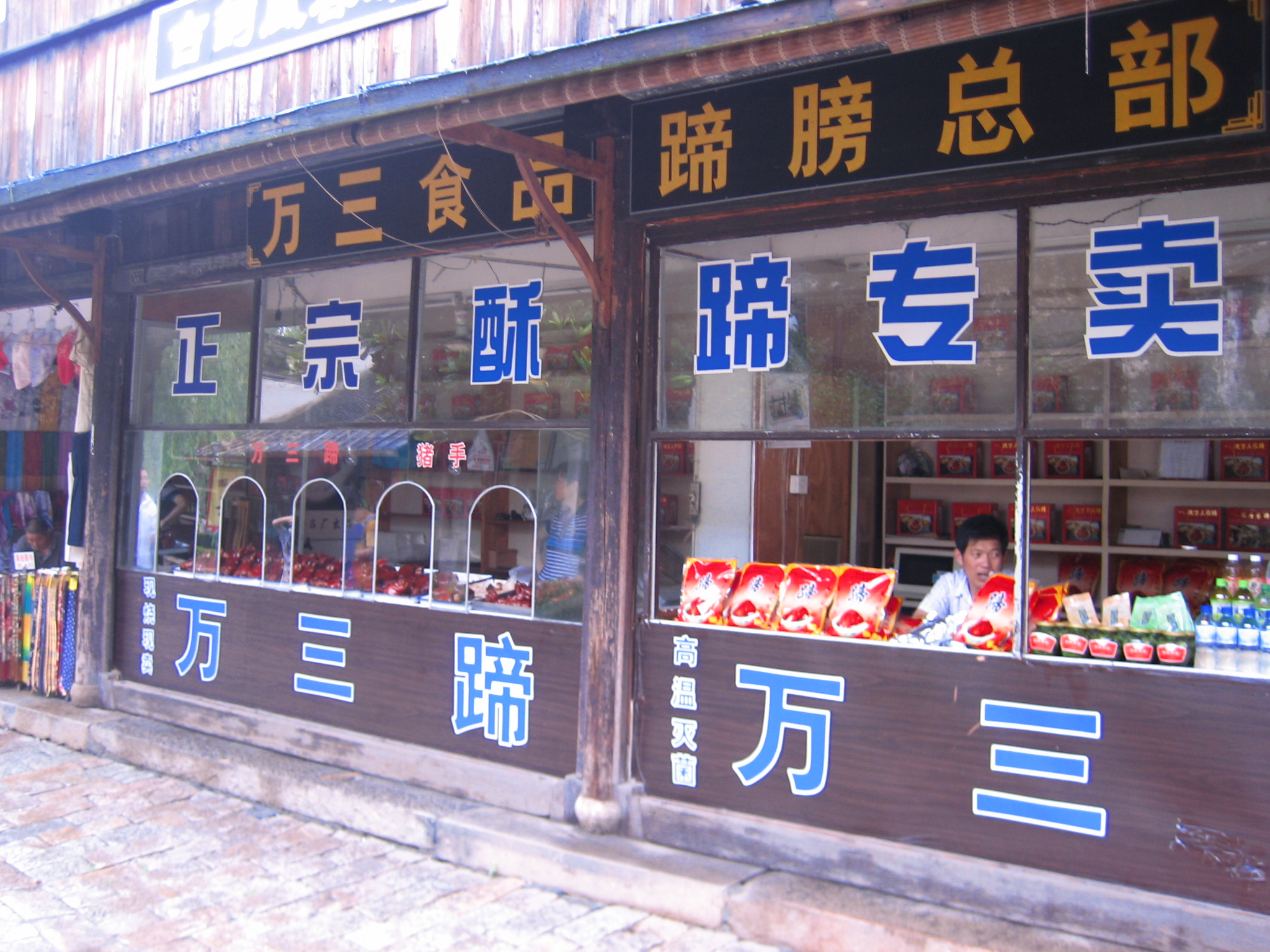 Shops of selling Wansanti in Zhouzhuang,Suzhou